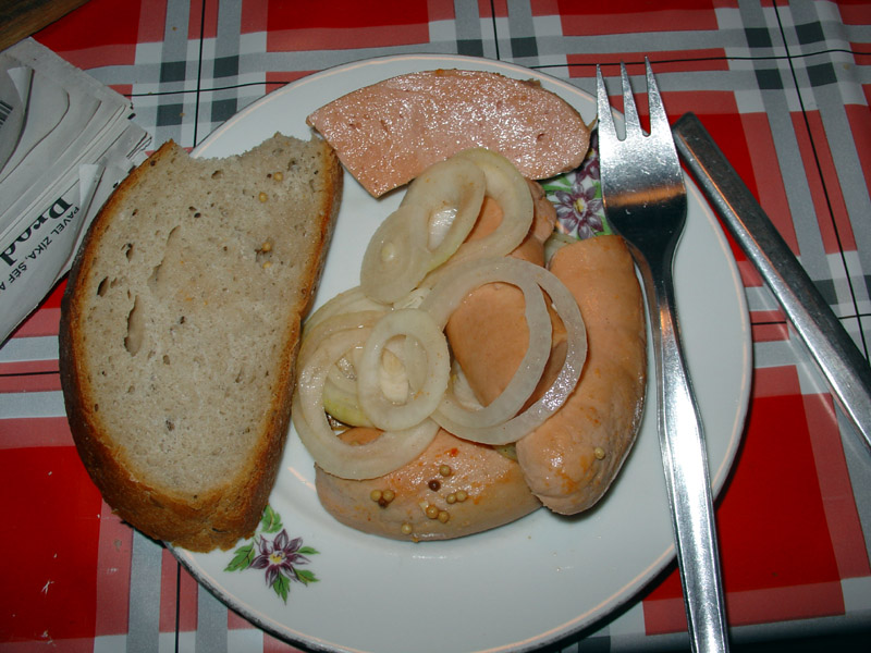 Czech meal - Pickled bratwursts called "drowned men" in Czech republic Utopenci Author= Karelj